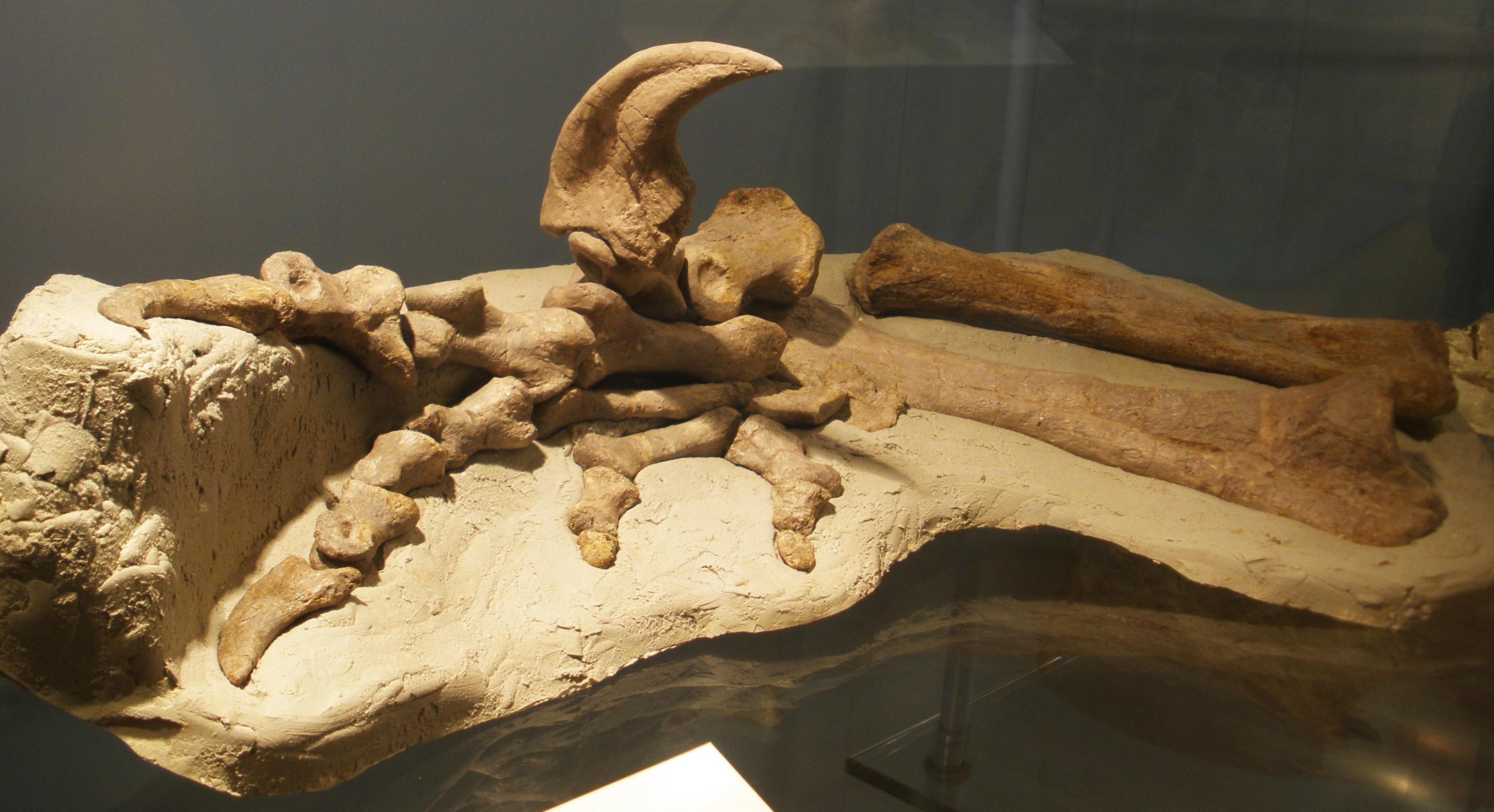 Fossil of Plateosaurus engelhardti, a dinosaur